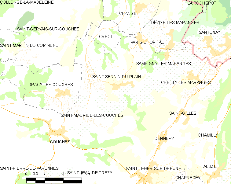 Map of French municipality